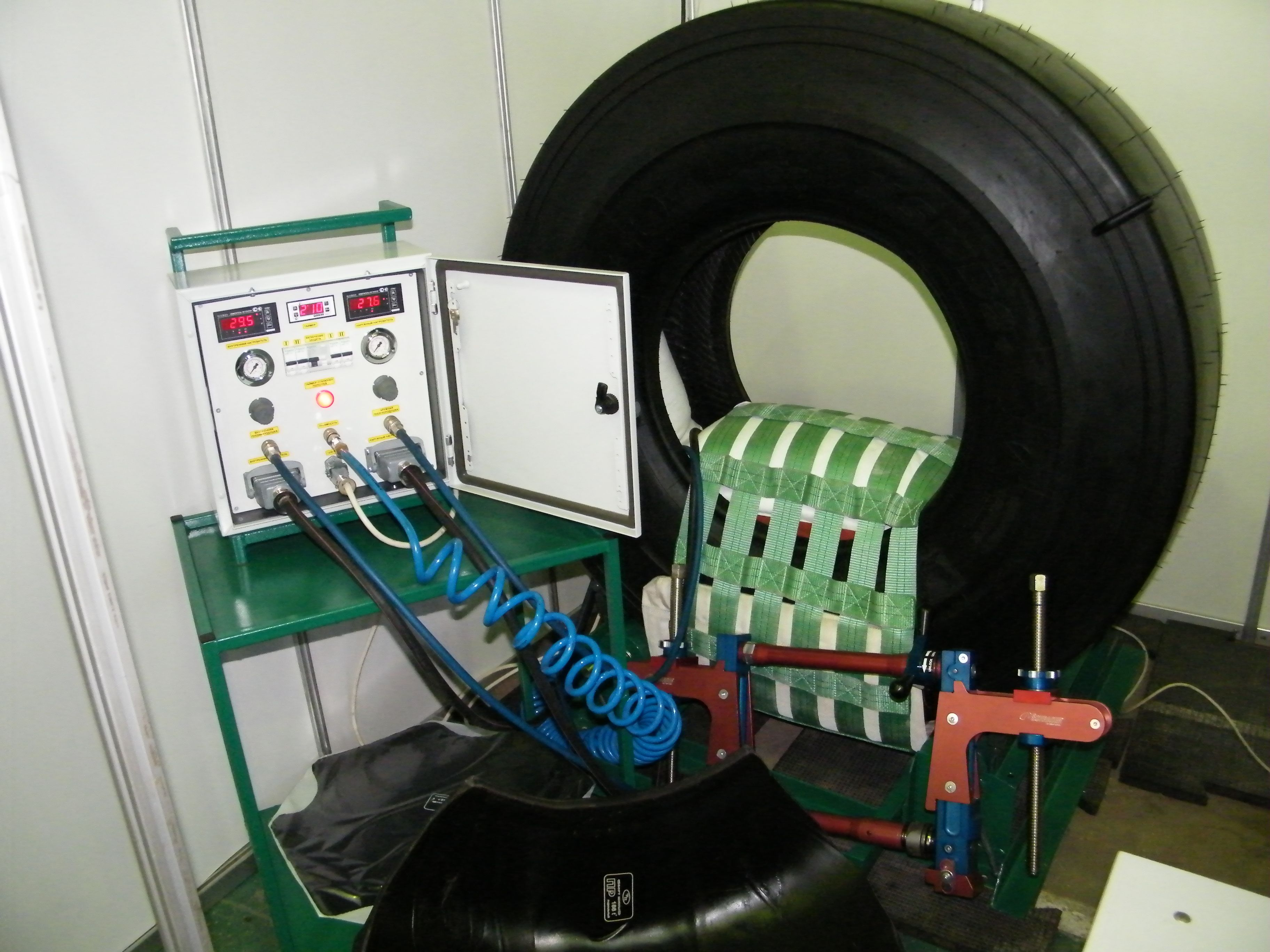 Large vulcanizer and car tire